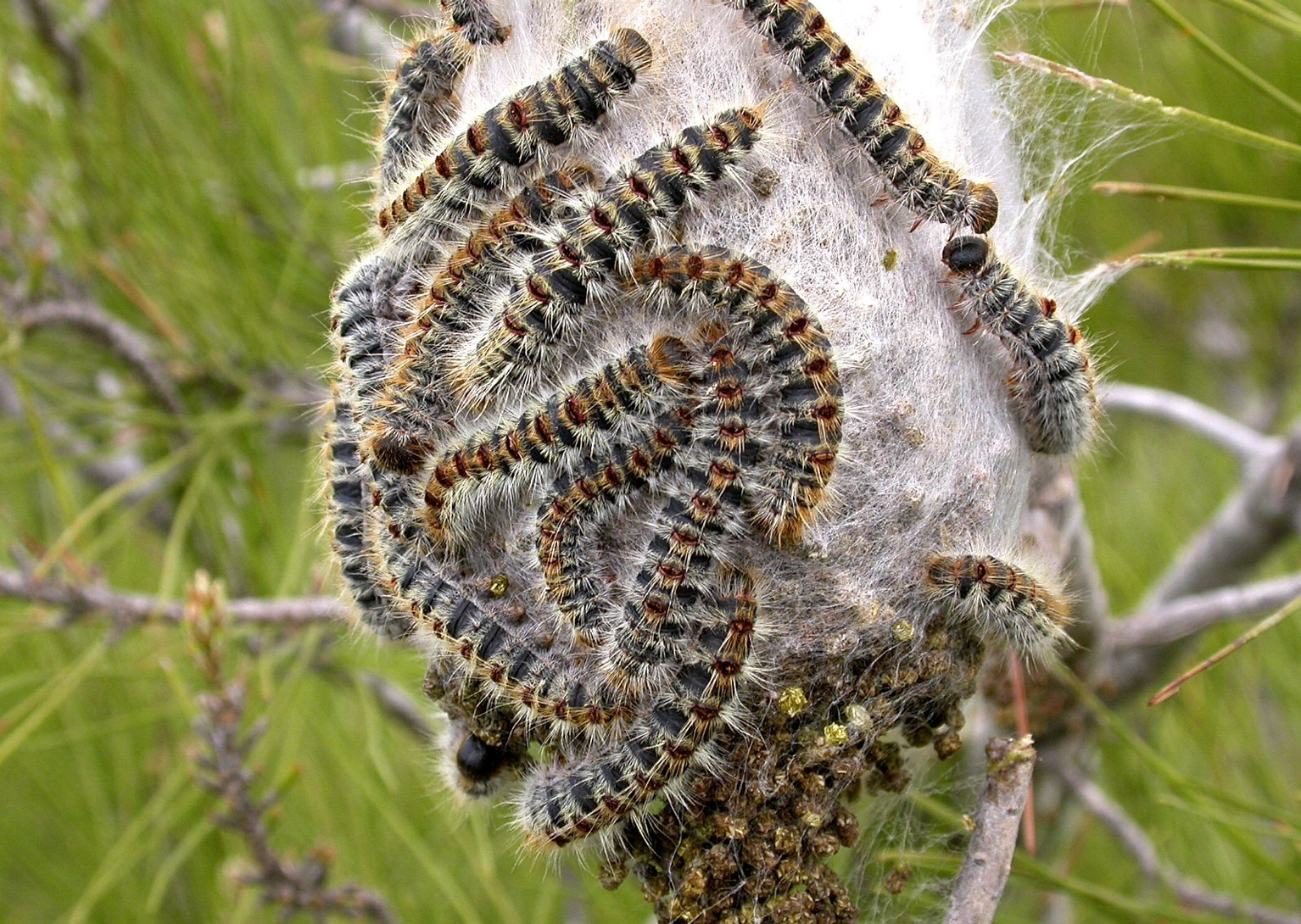 Larva of Thaumetopoea pityocampa from Cyprus